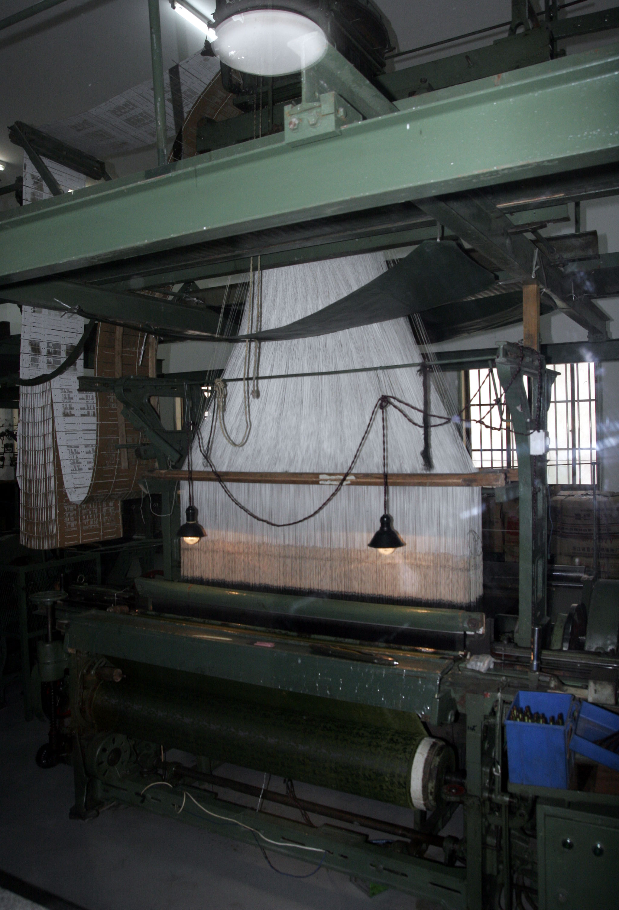 Silk production in the Suzhou No.1 Silk Mill in Suzhou (Jiangsu), China. With punched cards for pattern generation and control.